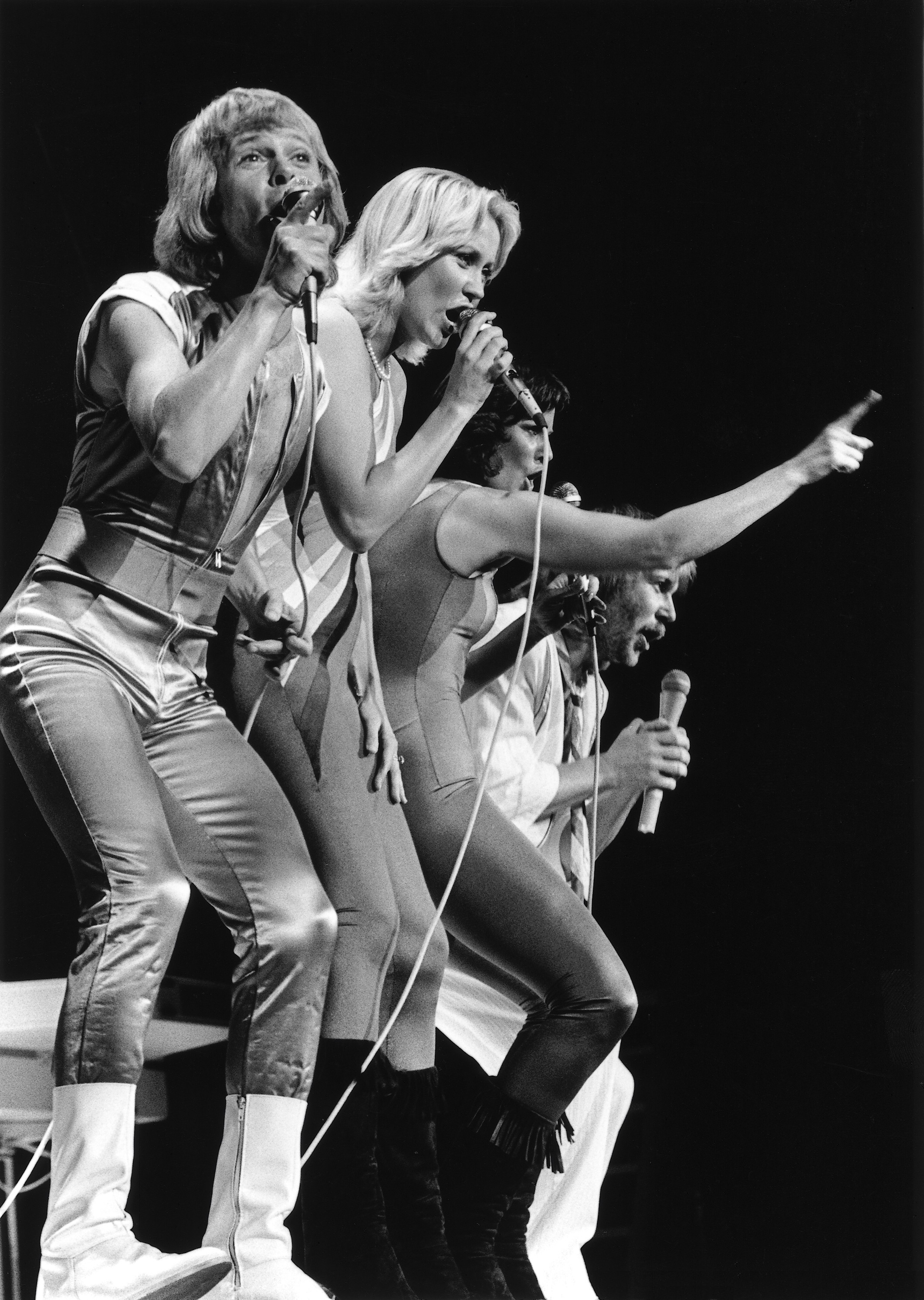 ABBA live at the Northlands Coliseum in Edmonton, Canada. The first stop of their 1979 North American tour.